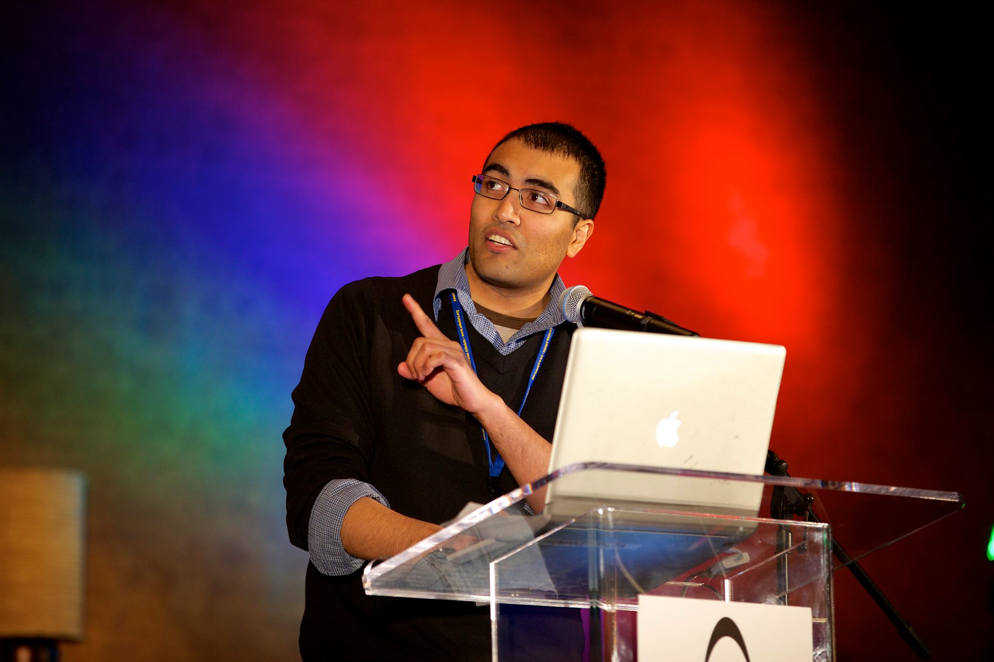 Hemant Mehta speaks